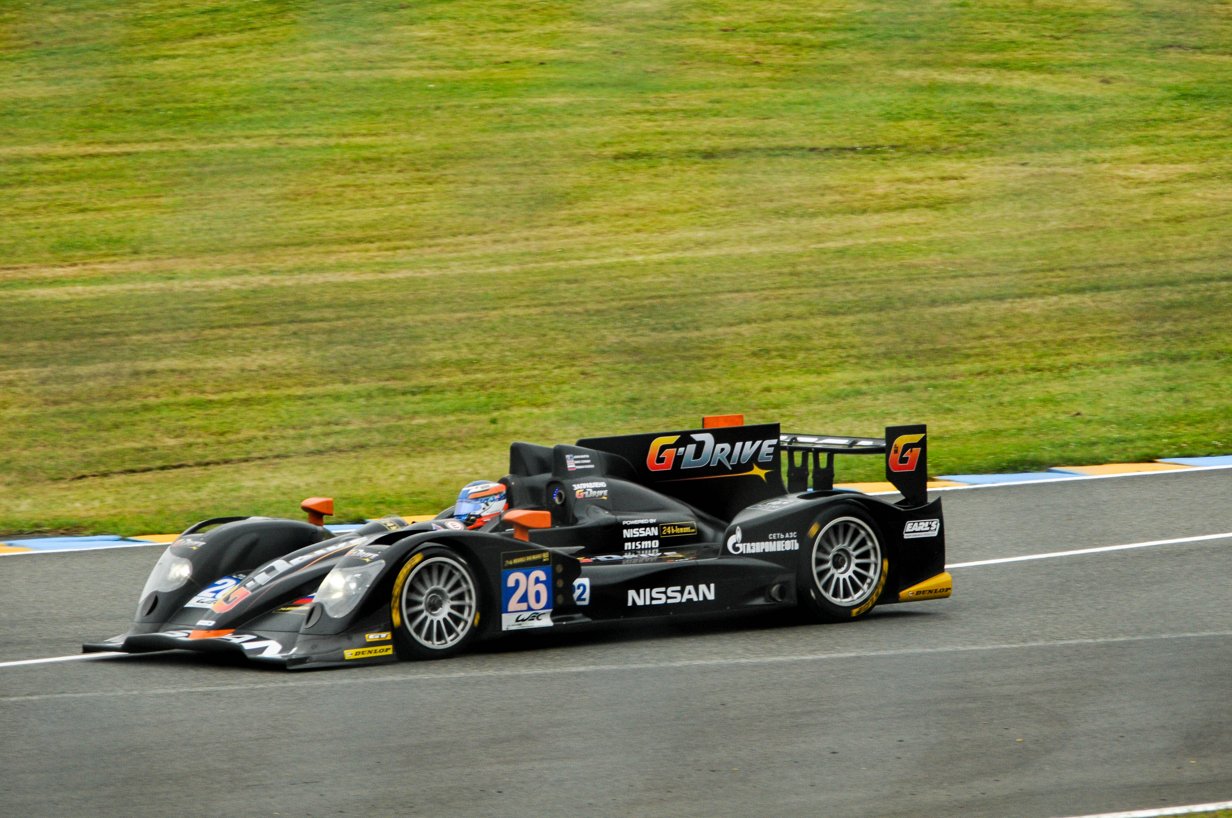 Le Mans 2013 (138 of 631)